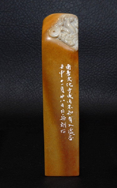 Seal sculpture and side-engraving.